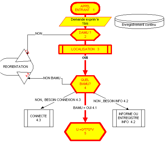 First tasks of Medical Regulation